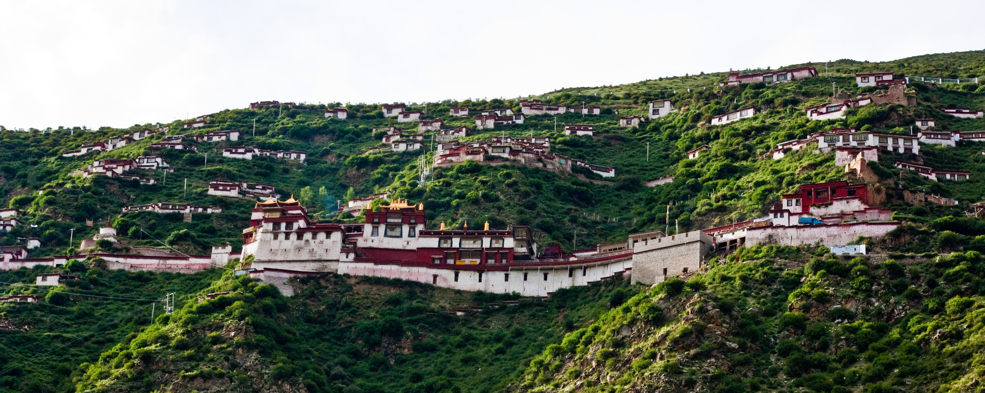 Drigung monastery